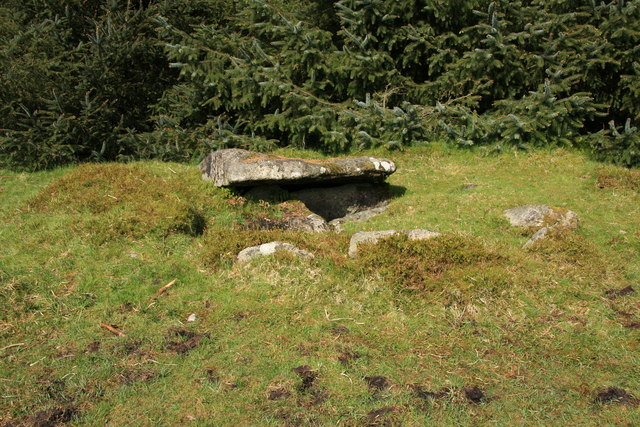 Cist west of Bellever Tor This cist is well preserved, the burial chamber has been opened but the roof slab is still present.